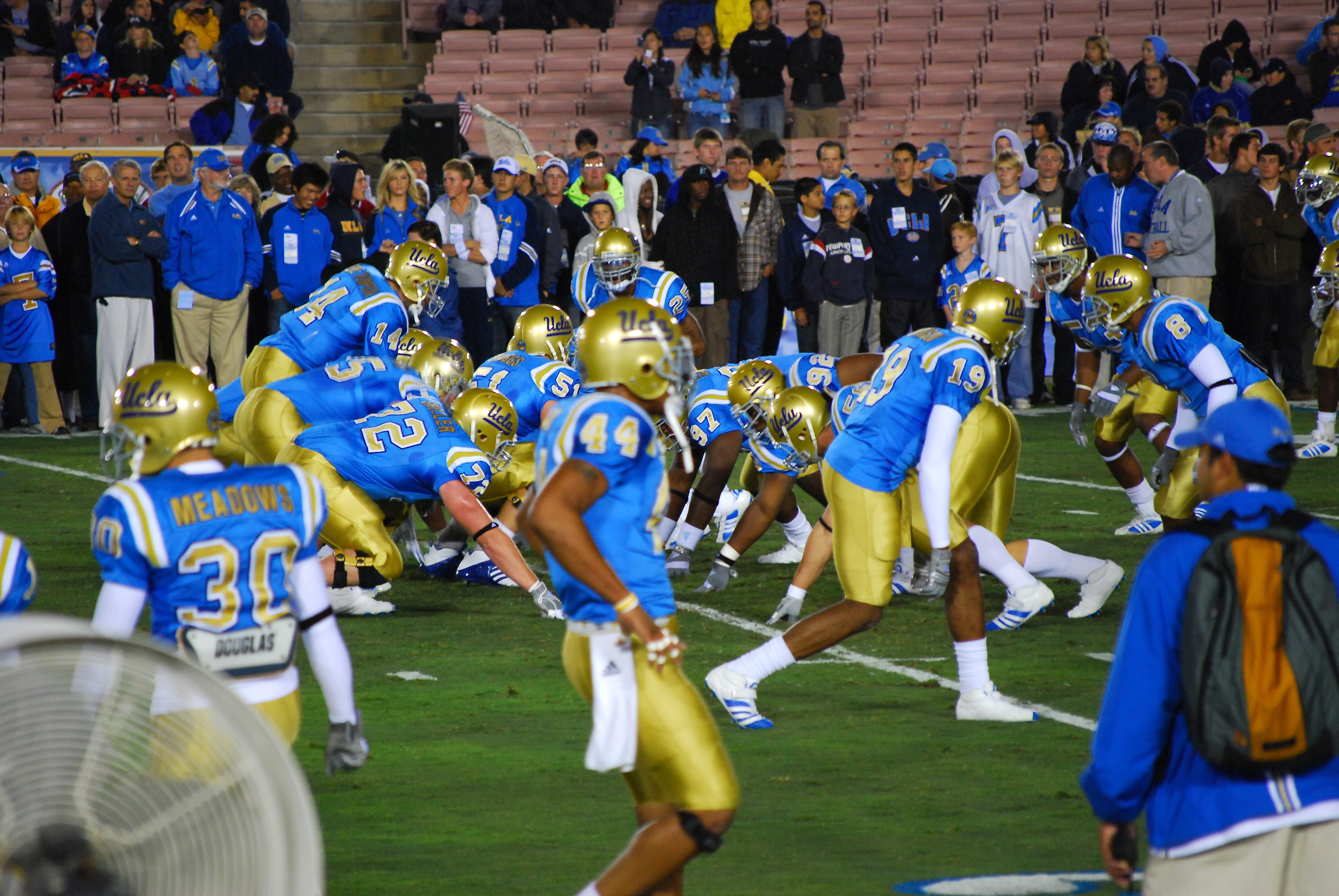 Bruin_on_Bruin_Scrimmage